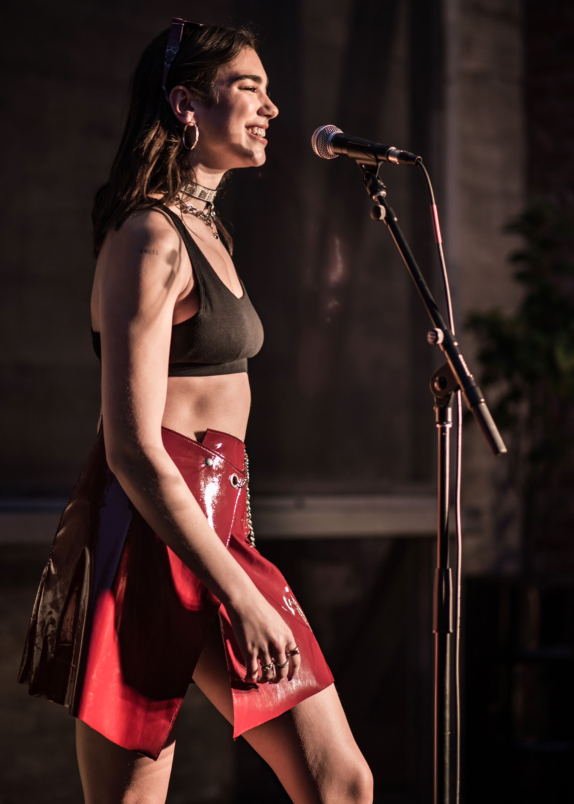 Dua Lipa performing live at Space 15 Twenty for Urban Outfitters Music, in Hollywood, Los Angeles, California, on Wednesday, April 19. 2017. Dua also signed copies of her limited-edition EP "The Only" and did a meet & greet with 150 fans.